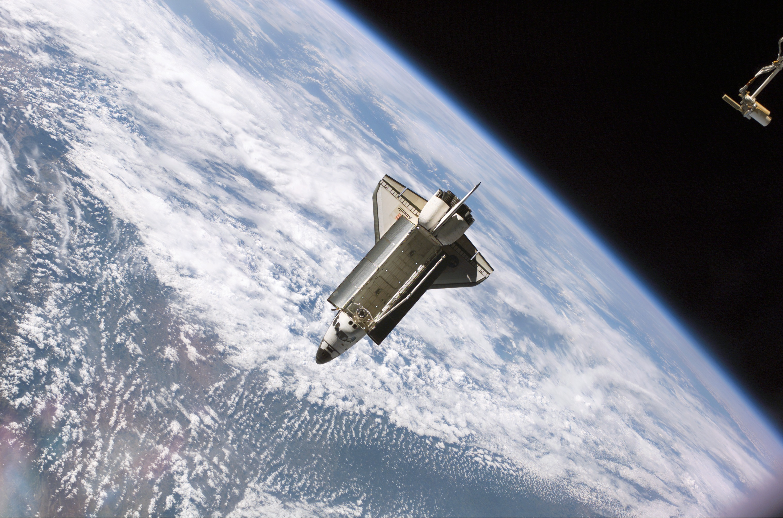 The Space Shuttle Atlantis, backdropped against clouds over Earth, is pictured after it undocked from the International Space Station at 7:50 a.m. CDT, Sept. 17, 2006. The STS-115 astronauts completed six days, two hours and two minutes of joint operations with the station crew.